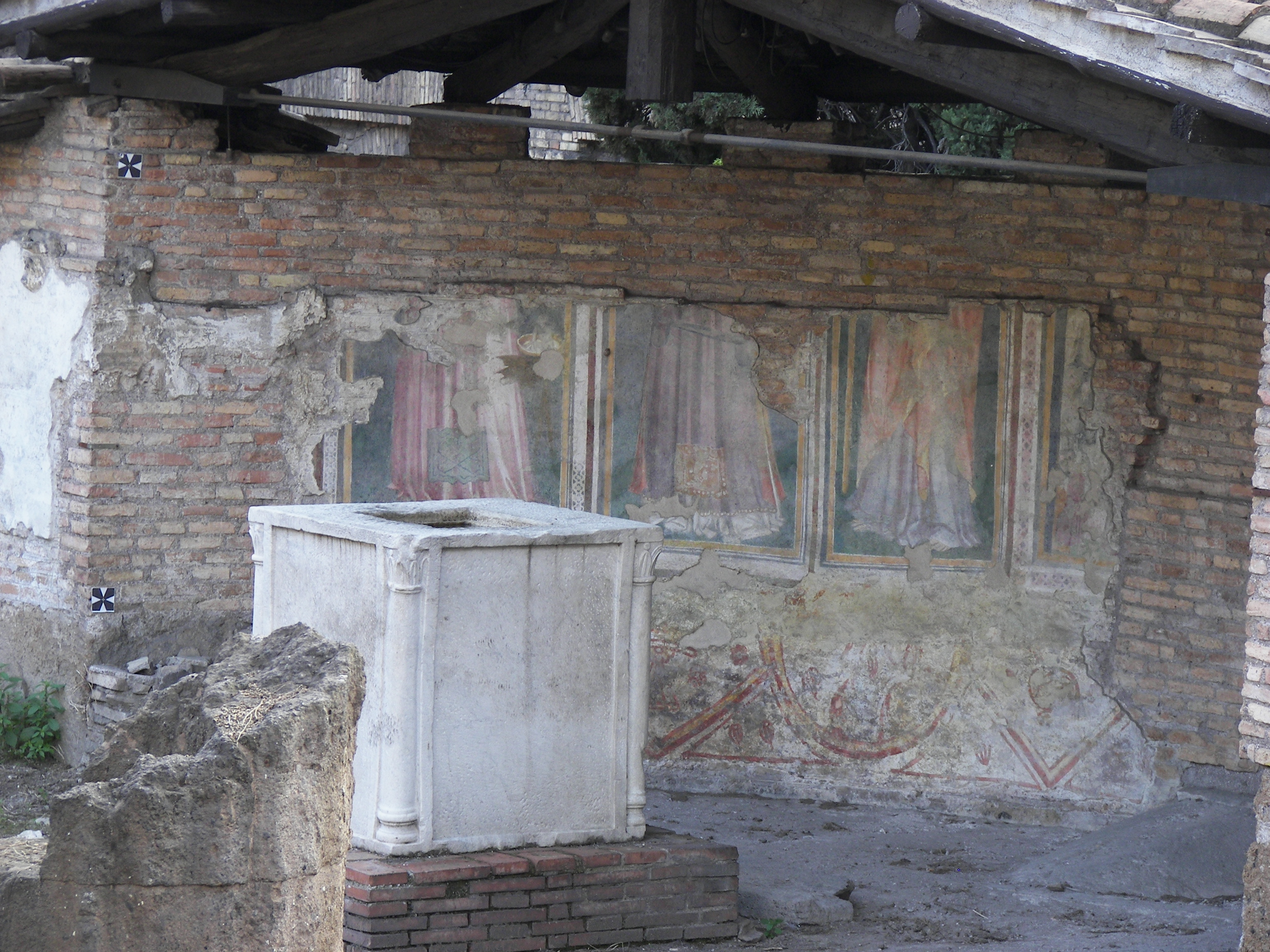 Christian fresco in Temple A of Largo di Torre Argentina in Rome..